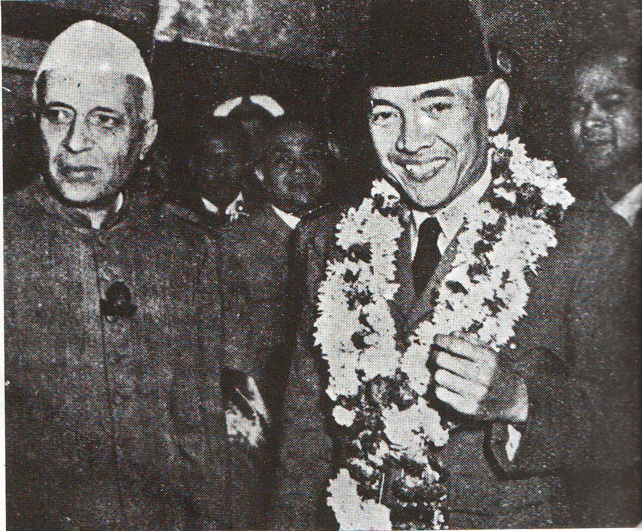 PM of India, Pandit Jawaharlal Nehru, meets Soekarno during his visit to New Delhi on January 1950.